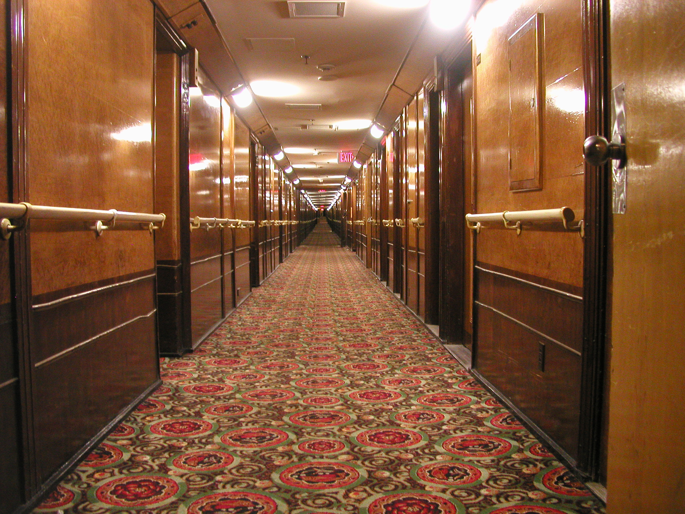 Queen Mary B Deck